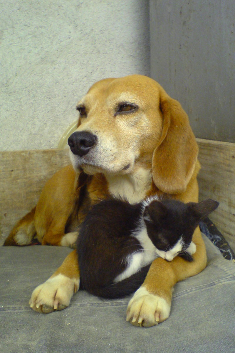 Beagle and kitten, taken with a cameraphone. Sometimes it's the only camera you have handy when the right scene appears.